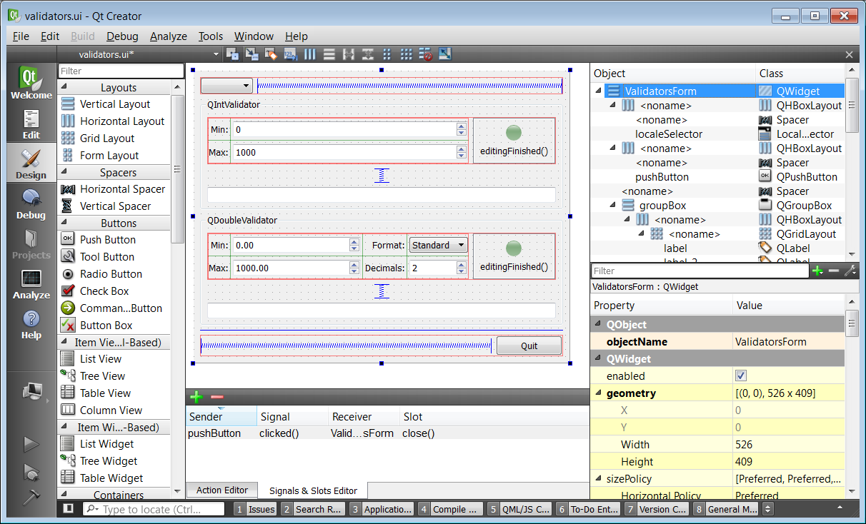 Screenshot of Qt Creator 3.1.1 editing a sample UI file from Qt 5.3 on Windows 7